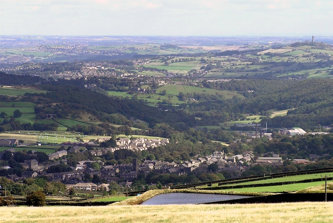 Meltham and lower Holme Valley, West Yorkshire. Netherton and Newsome are seen centre left.